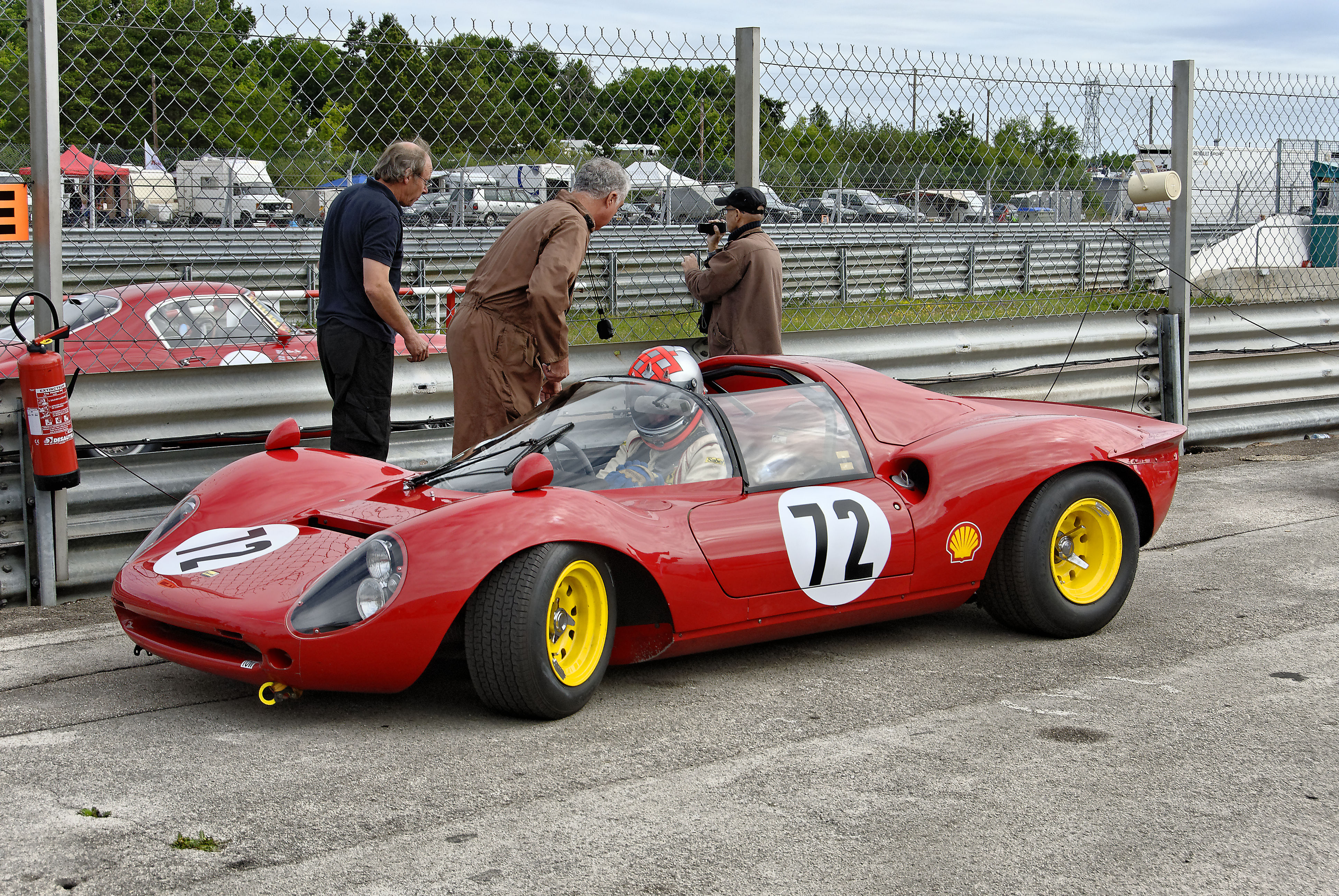 1965 Ferrari 166/206P s/n 834 at Grand Prix de L'âge d'or, at circuit Dijon Prenois on 25 June 2011.